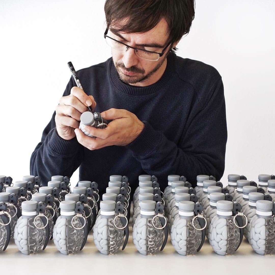 Emilio Garcia's Brainade signature